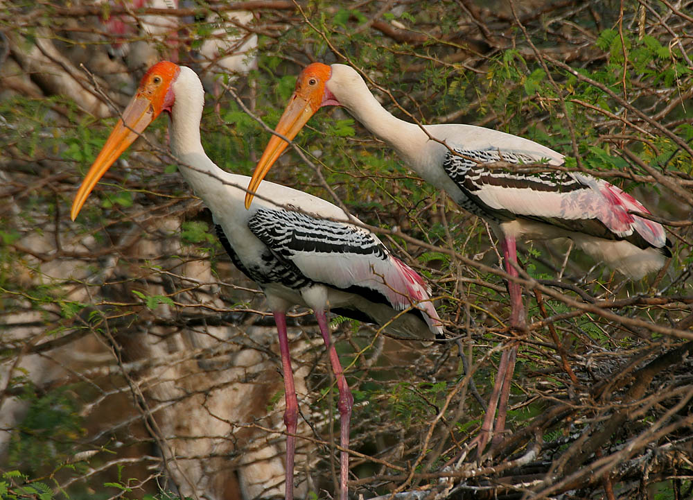 Painted Stork Mycteria leucocephala at Garapadu, Andhra Pradesh, India.